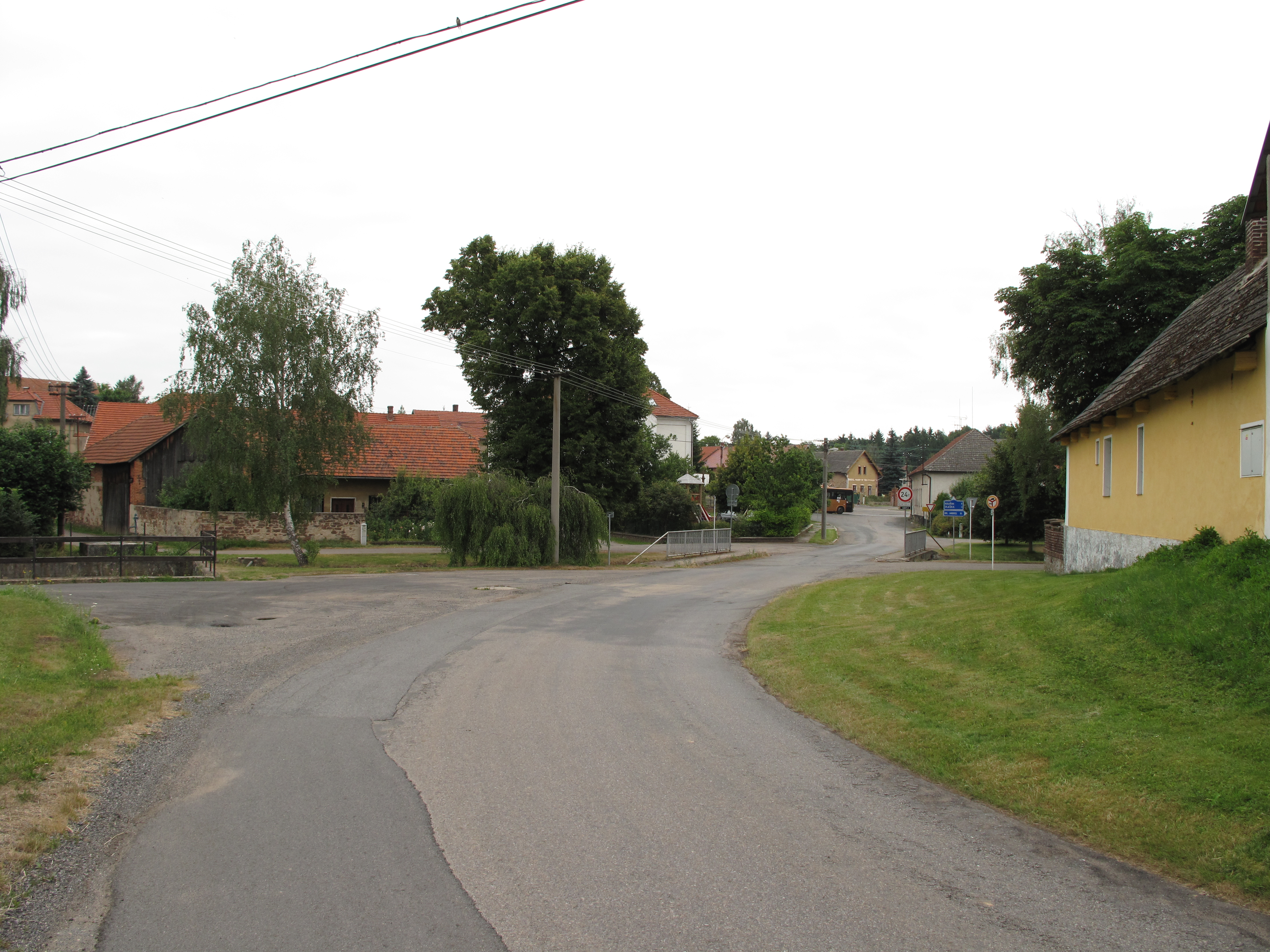 This photograph was taken within the scope of the second year of the 'Czech Municipalities Photographs' grant.